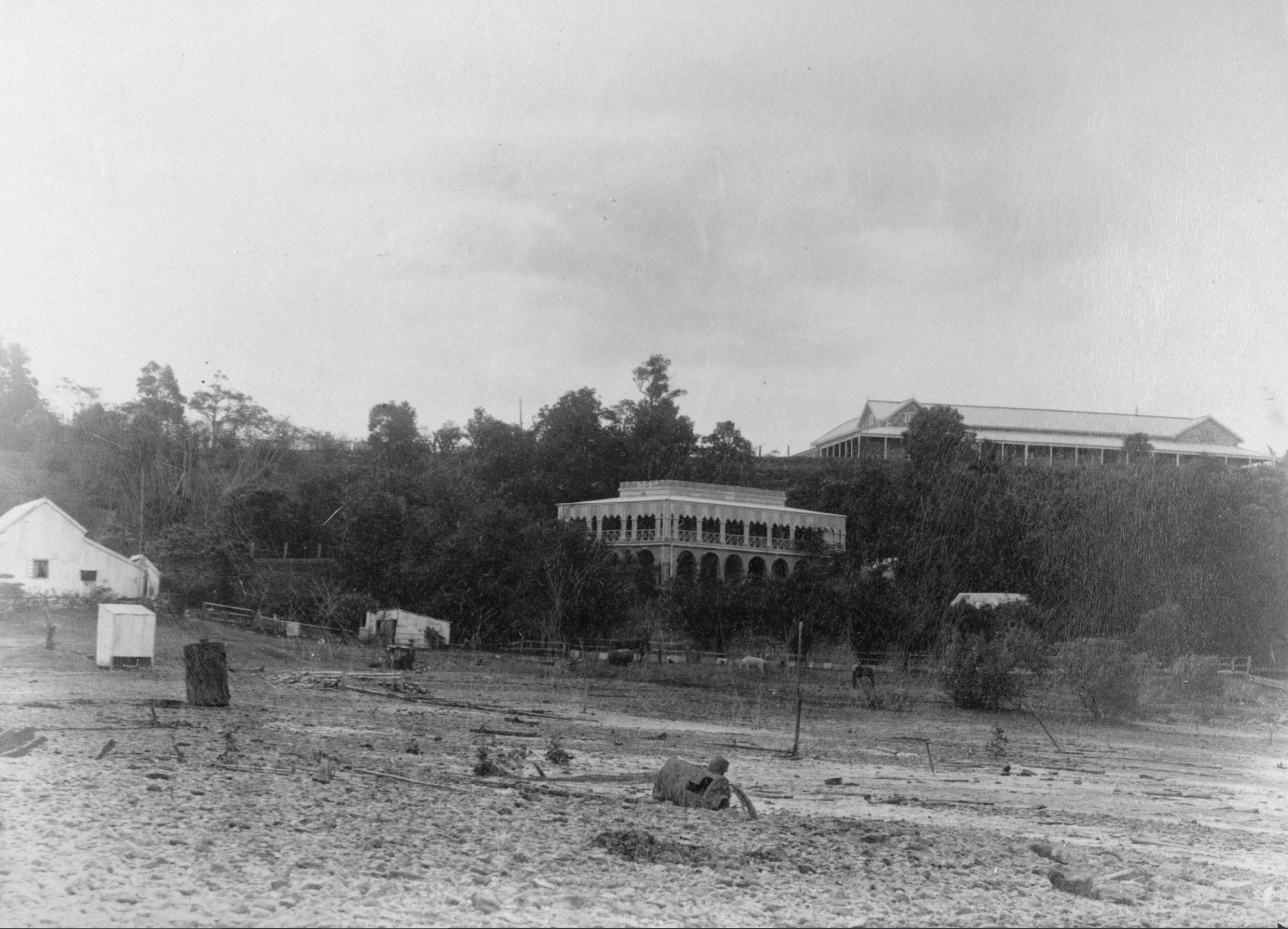 View from beach. Government offices in background. Two storey building known as 'Mud Hut' or Knight's Folly in foreground B24187/3